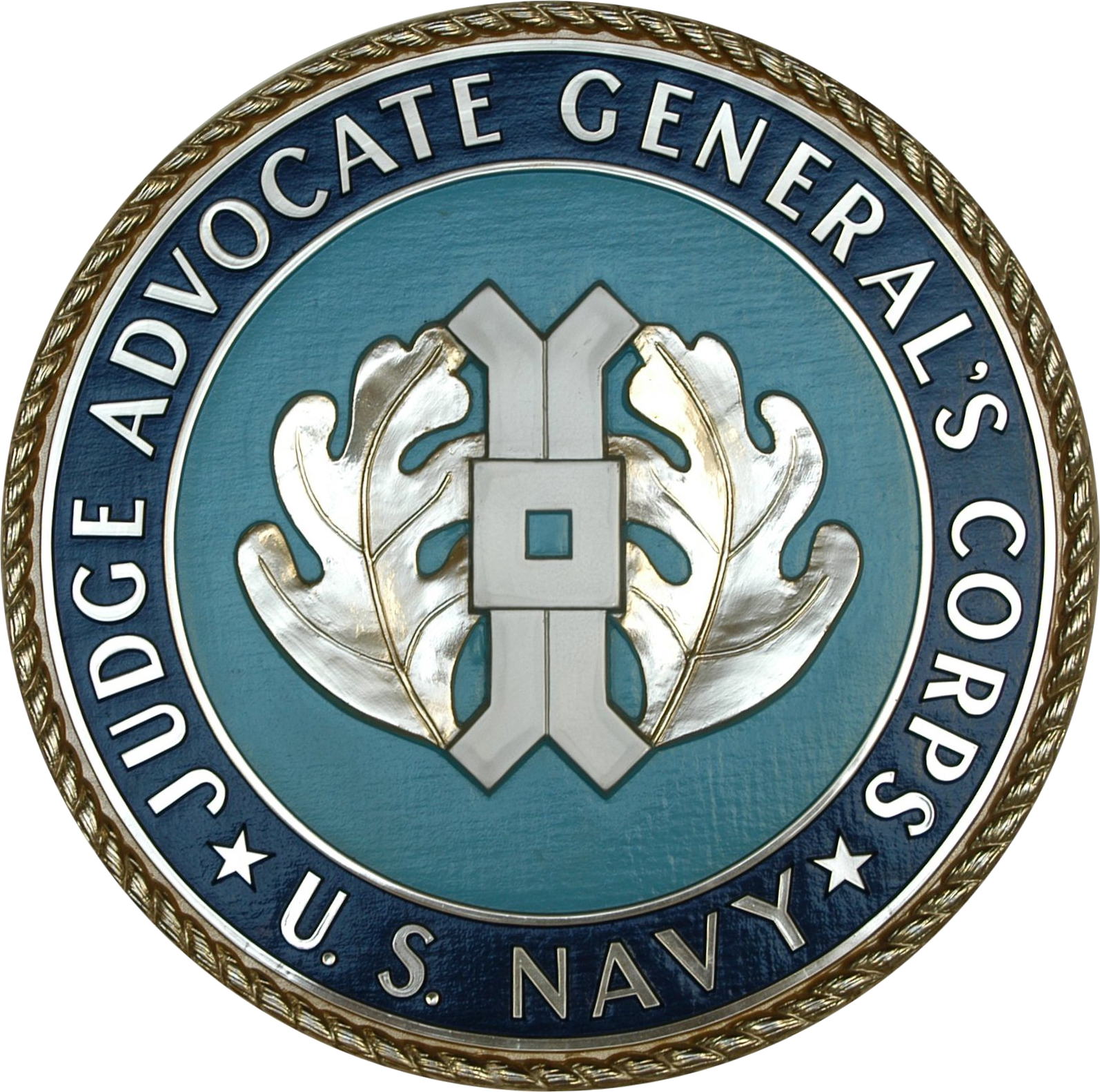 Seal of the United States Navy Judge Advocate General's Corps